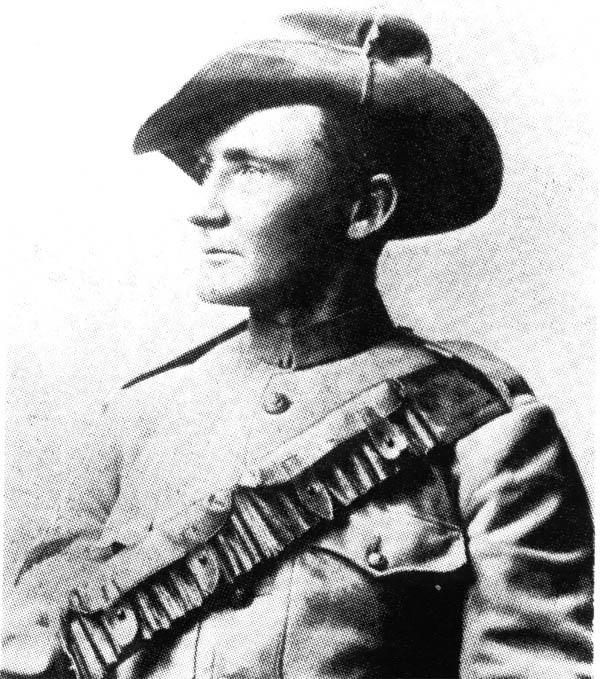 Harry 'Breaker' Harbord Morant (1864- February 27, 1902), circa 1900 26 February 1902 The 'Confession' The 'Confession' written on the back of photograph A05828 addressed to the Reverend Canon Fisher was written by Lieutenant (Lt) Harry Harbord Morant and signed by Morant and Lt Peter Joseph Handcock, it reads: 'To the Rev. Canon Fisher, Pretoria The night before we're shot We shot the Boers who killed and mutilated our friend ( the best mate I had on Earth) Harry Harbord Morant Peter Joseph Handcock'